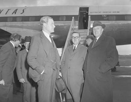 The United Kingdom Minister for Defence, Mr Duncan Sandys on a tour of Australia, New Zealand and the Far East arrived in Sydney on 16 August, 1957. (From left to right) Lord Carrington, United Kingdom High Commissioner; Sir William Dickson, Chairman of British Chiefs-of-Staff; Mr Duncan Sandys; Sir Philip McBride, Minister for Defence and Mr Howard Beale, the Minister for Defence and Supply Production [photographic image] / photographer, W Brindle. 1 photographic negative: b&w, acetate